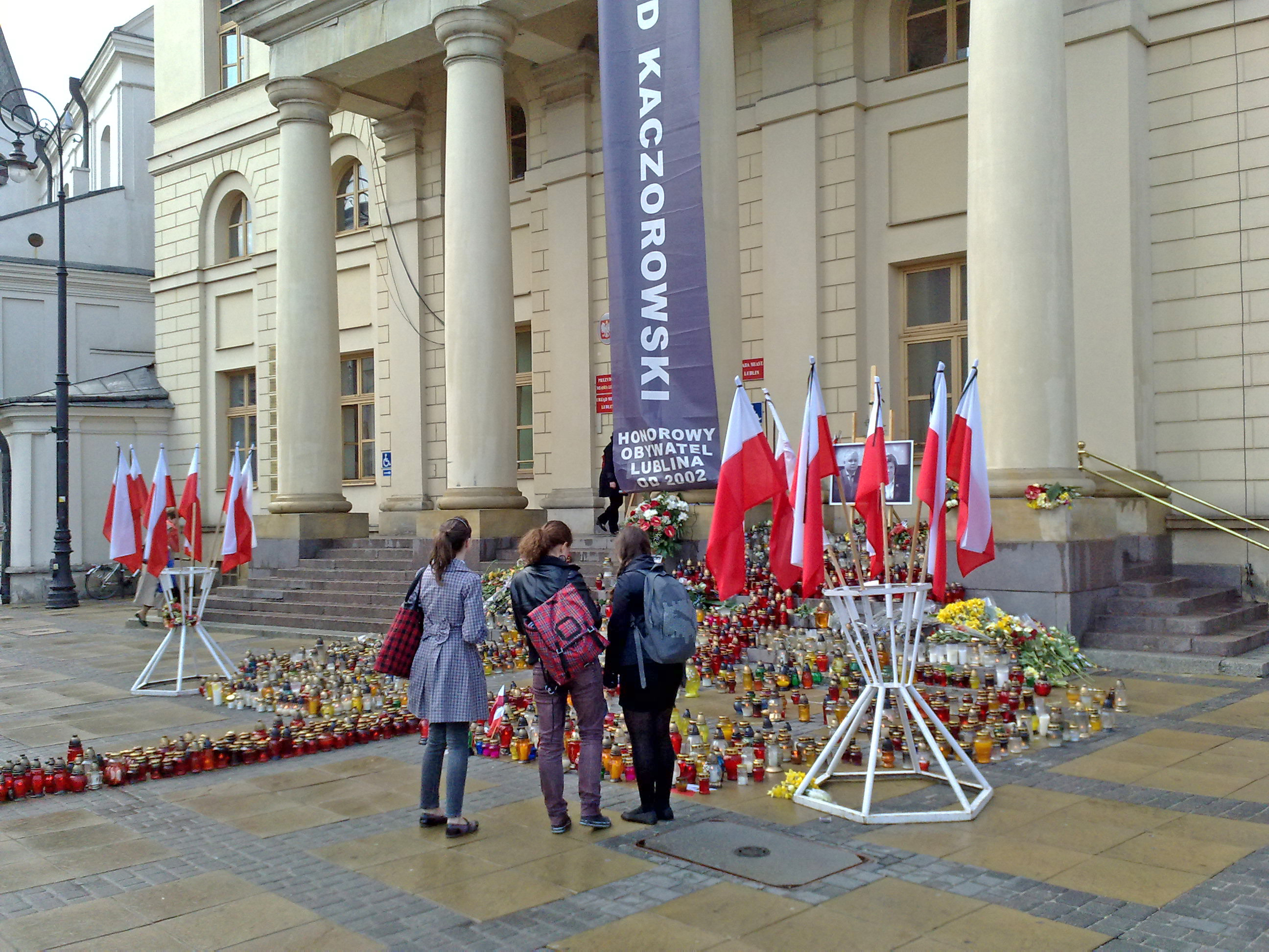 The inhabitants of Lublin in honor of the President in exile Ryszard Kaczorowski, Polish President Lech Kaczynski and all the victims of the tragic flight of TU 154 M, consist of flowers, lit candles and fill the issued books.